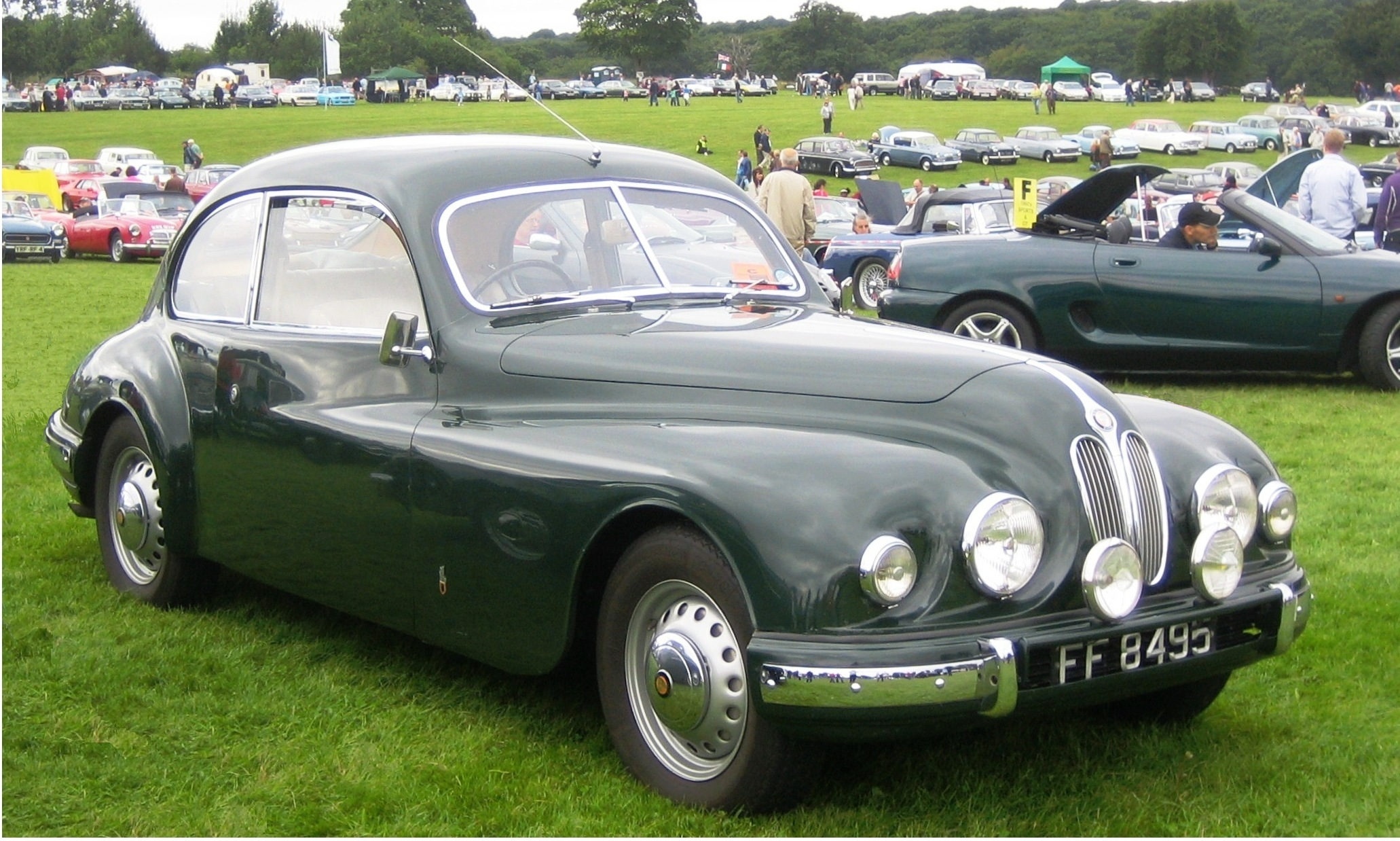 Bristol 403 at Knebworth Classic Car Show